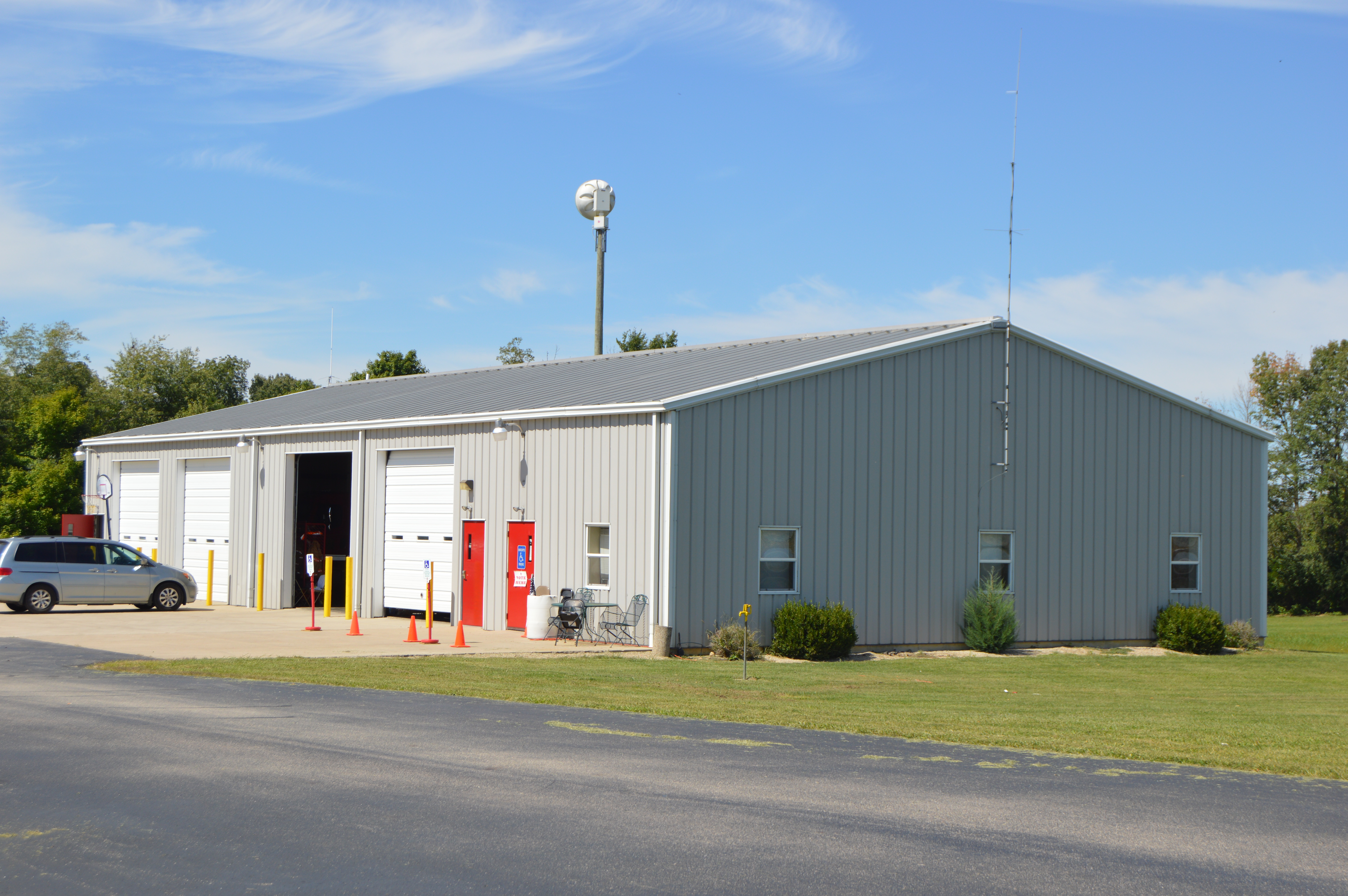 Front and eastern end of the Gasper Township Fire Department, located at 4195 Paint Creek Road on the edge of the Lake Lakengren development in Gasper Township, Preble County, Ohio, United States. It was built in 2003.